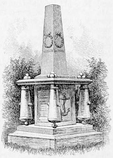 Mexican War Midshipmen's Monument erected at Annapolis on the grounds of the United States Naval Academy in memory of Thomas Branford Shubrick (1825-1847), killed while in the act of pointing this gun during the bombardment of Vera Cruz; and Passed Midshipmen Henry A. Clemson, John R. Hynson, and Midshipman Wingate Pillsbury, who were drowned when the brig “Somers” was capsized and lost in a squall off Vera Cruz in December 1846.